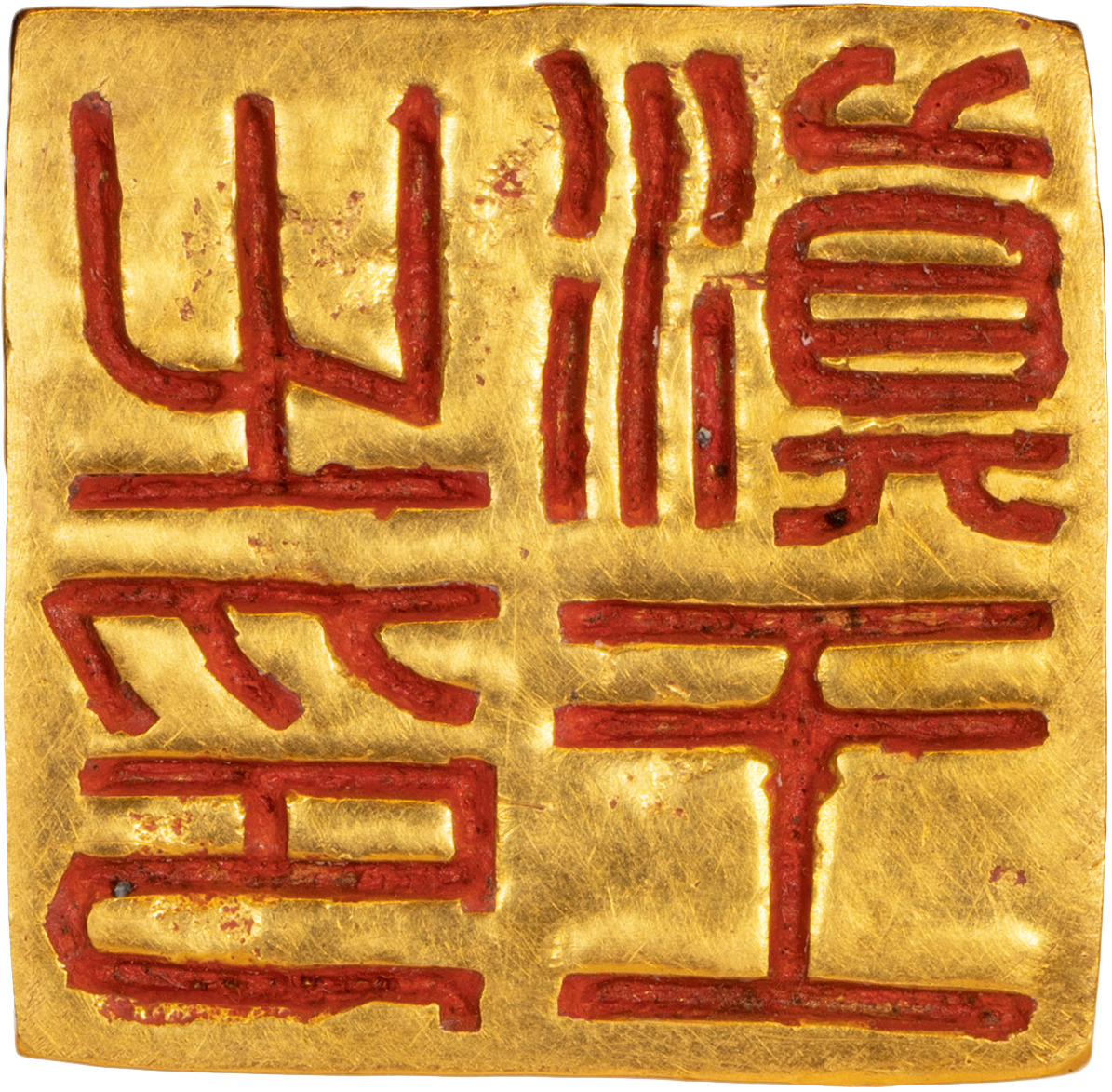 Imperial Seal of the King of Dian, Han Dynasty.